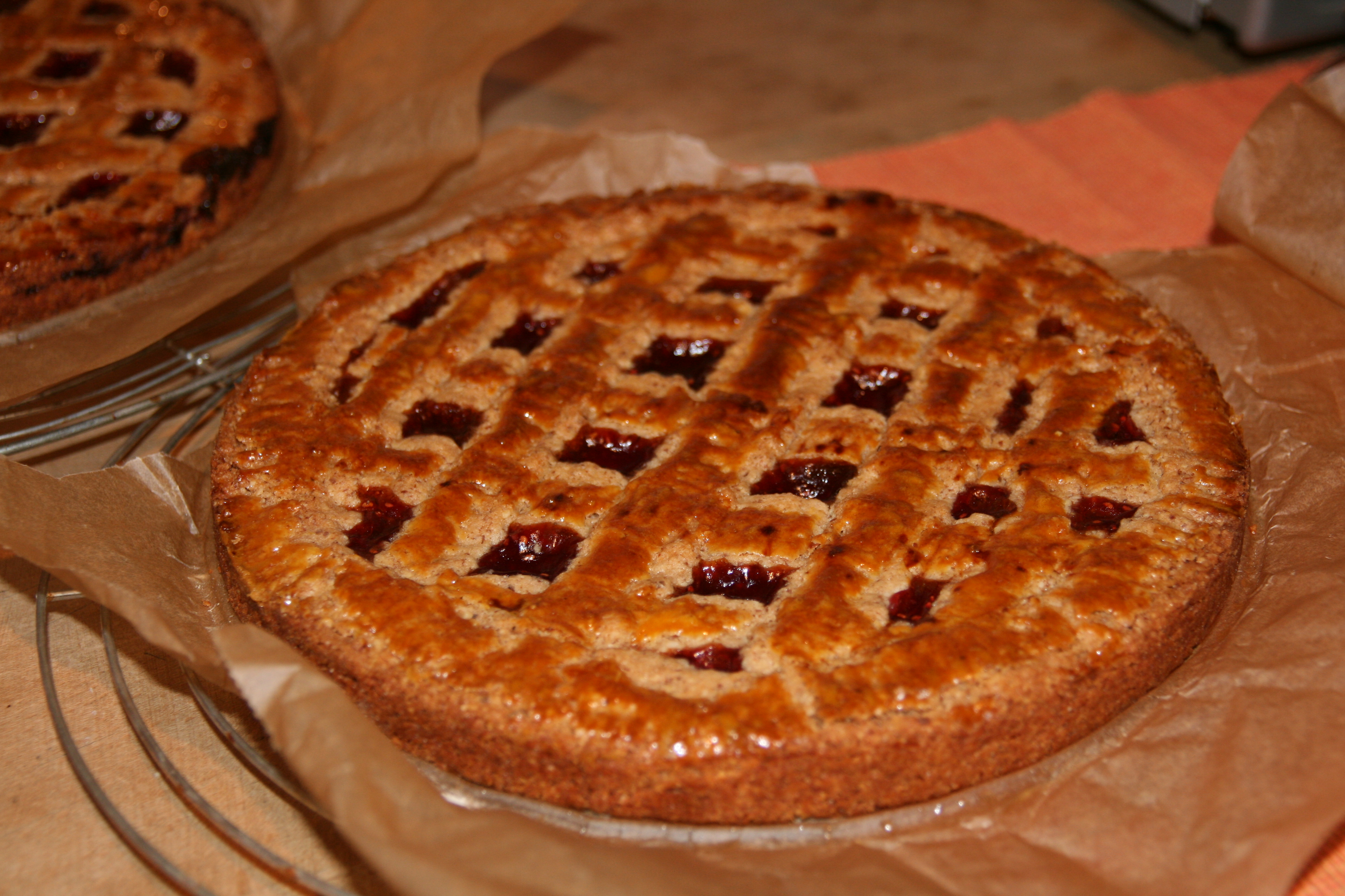 Linzer torte